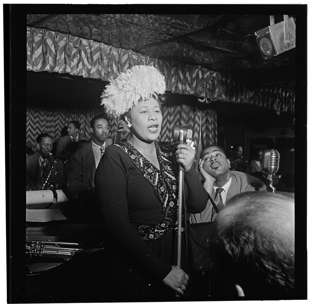 Gottlieb, William P., 1917-, photographer. [Portrait of Ella Fitzgerald, Dizzy Gillespie, Ray Brown, Milt (Milton) Jackson, and Timmie Rosenkrantz, Downbeat, New York, N.Y., ca. Sept. 1947] 1 negative : b&w ; 2 1/4 x 2 1/4 in. Notes: Gottlieb Collection Assignment No. 366 Reference print available in Music Division, Library of Congress. Purchase William P. Gottlieb Forms part of: William P. Gottlieb Collection (Library of Congress). Subjects: Fitzgerald, Ella Gillespie, Dizzy, 1917- Brown, Ray, 1926- Jackson, Milt (Milton) Rosenkrantz, Timmie Women jazz musicians--1940-1950. Jazz musicians--1940-1950. Jazz singers--1940-1950. Trumpet players--1940-1950. Fifty-second Street (New York, N.Y.)--1940-1950. Downbeat Format: Portrait photographs--1940-1950. Group portraits--1940-1950. Film negatives--1940-1950. Rights Info: Mr. Gottlieb has dedicated these works to the public domain, but rights of privacy and publicity may apply. Repository: (negative) Library of Congress, Prints & Photographs Division, Washington D.C. 20540 USA, (reference print) Library of Congress, Music Division, Washington D.C. 20540 USA, Part Of: William P. Gottlieb Collection (DLC) 99-401005 General information about the Gottlieb Collection is available at Persistent URL: Call Number: LC-GLB23- 0285